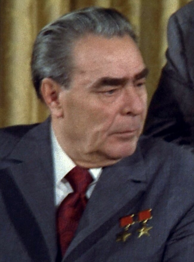 Leonid Brezhnev June 19, 1973 during the Soviet Leader's visit to the U.S.